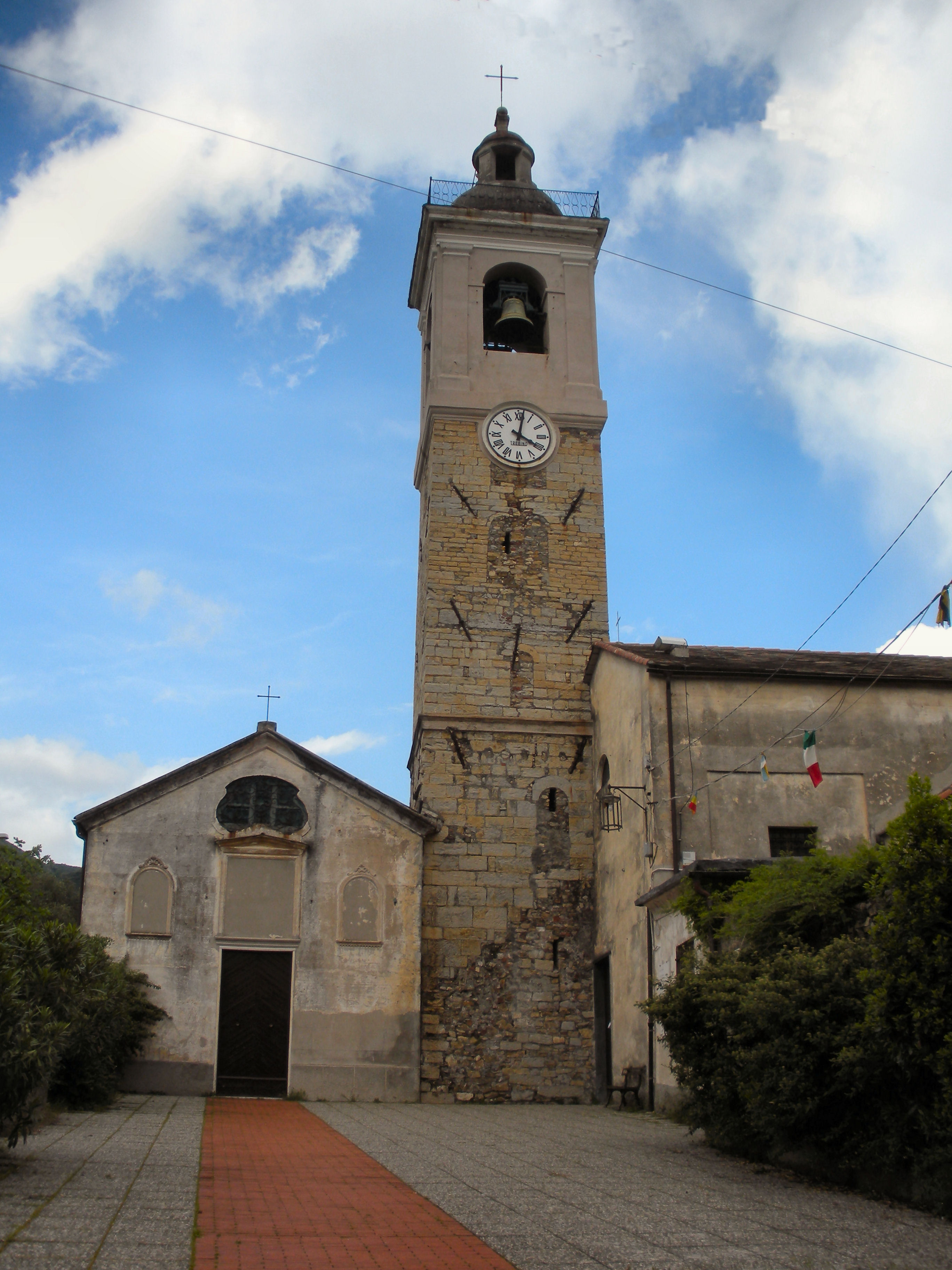 Genoa (Italy), quarter of Staglieno, church and oratory of St. Antonino